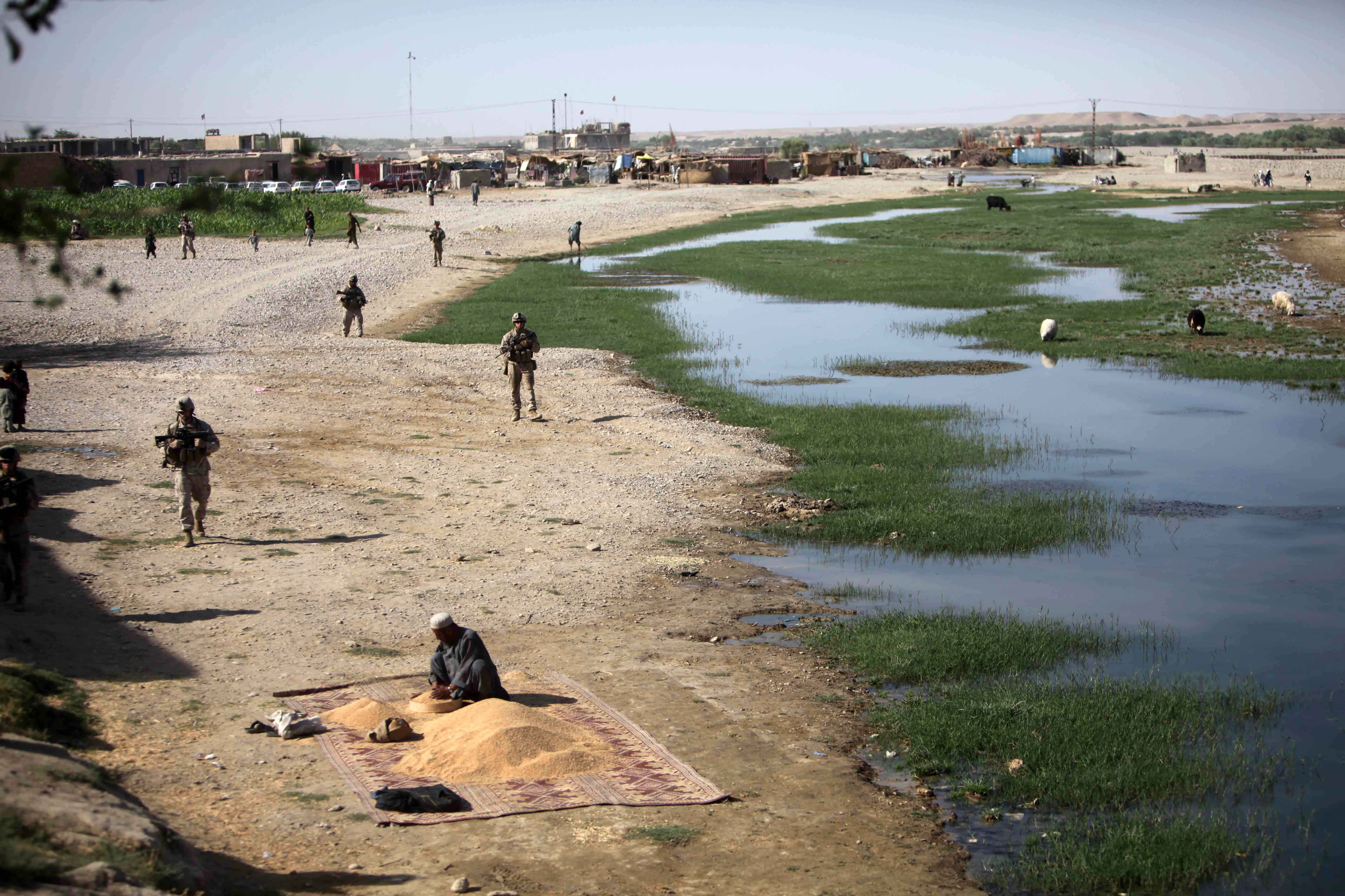 Marines with 1st Battalion, 2nd Marine Regiment, patrol the Musa Qal'eh District Center Aug. 6. The Marines deployed to Helmand Province in support of the International Security Assistance Force.